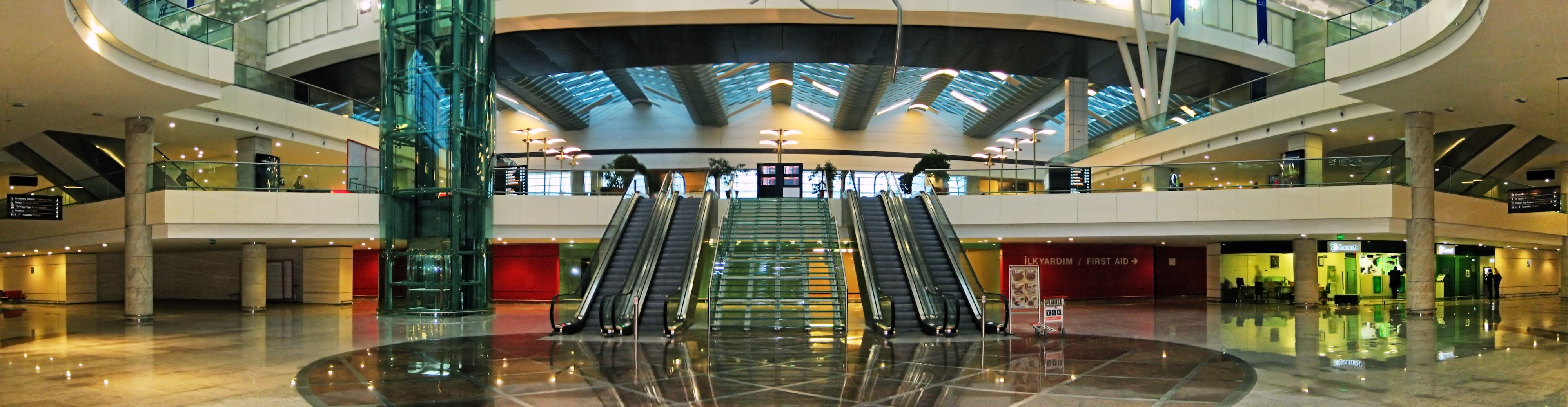 Esenboga Airport New Terminal